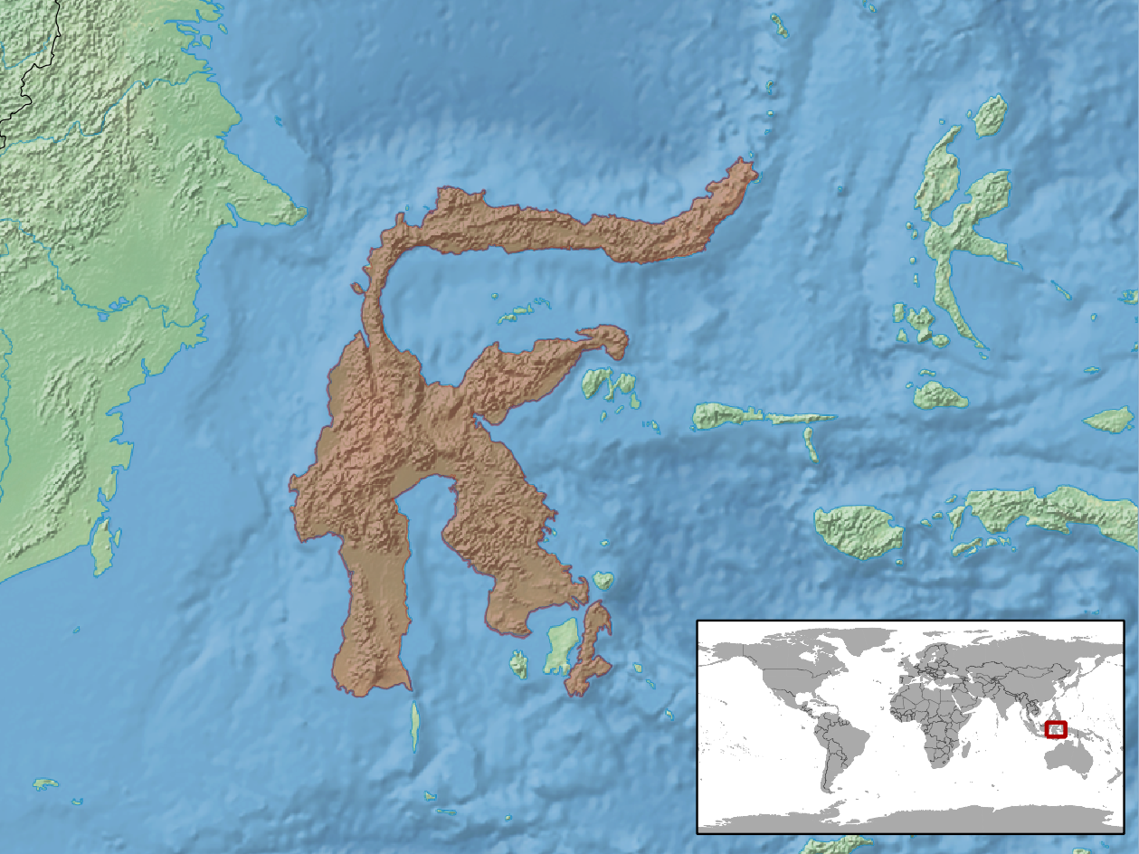 geographic distribution of Calamaria nuchalis (Native: Indonesia (Sulawesi))